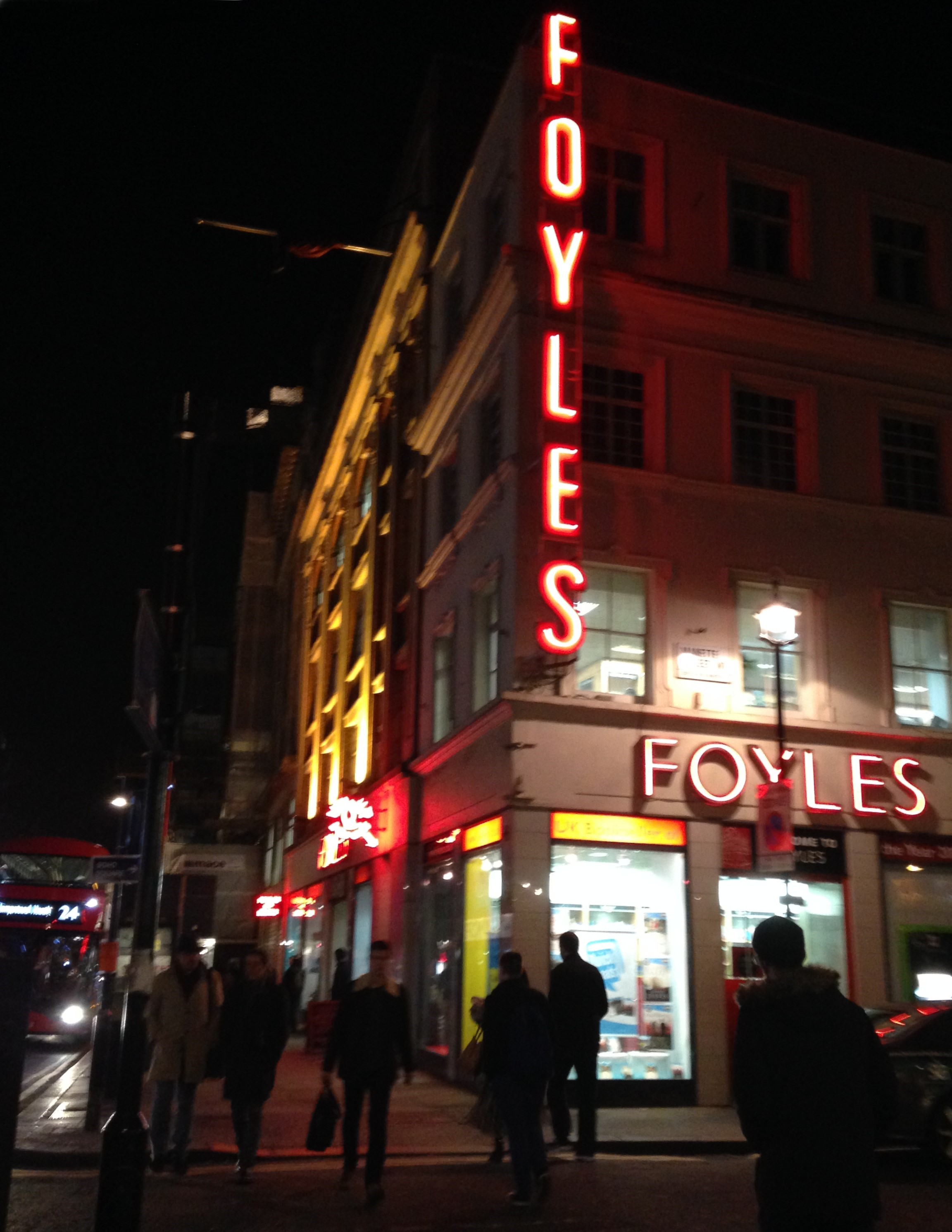 Foyles Bookstore charing cross road, london